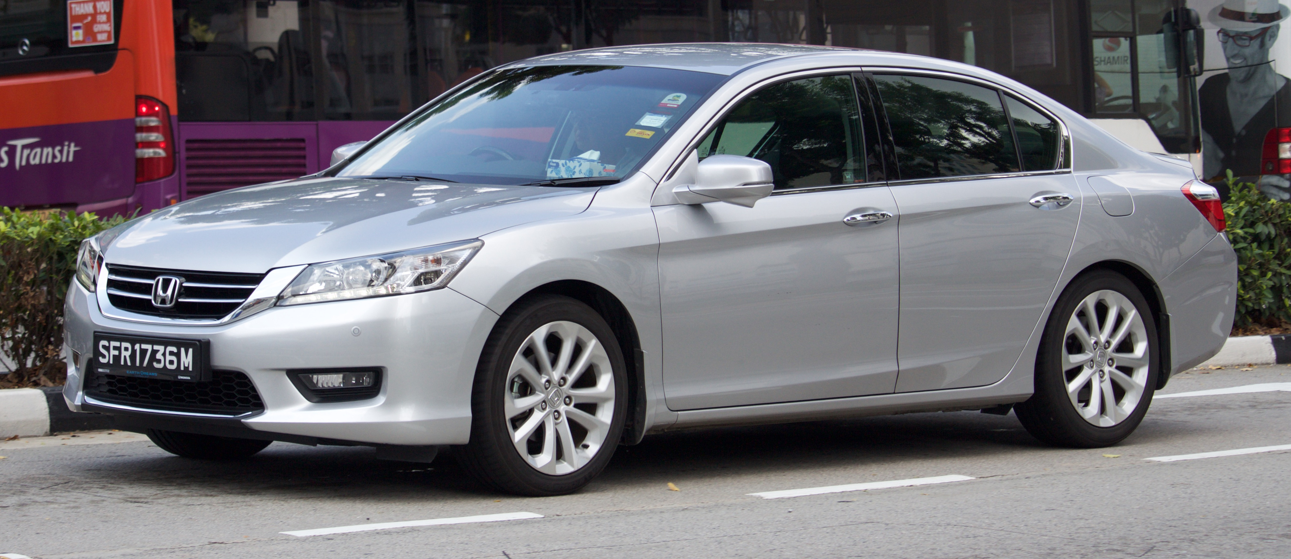 2014 Honda Accord 2.4 i-VTEC sedan, photographed in Singapore. Vehicle registration enquiry results Jurisdiction Singapore Registration SFR1736M Chassis code MRHCR2630EP000014 Engine code K24W31200717 Year of manufacture 2014